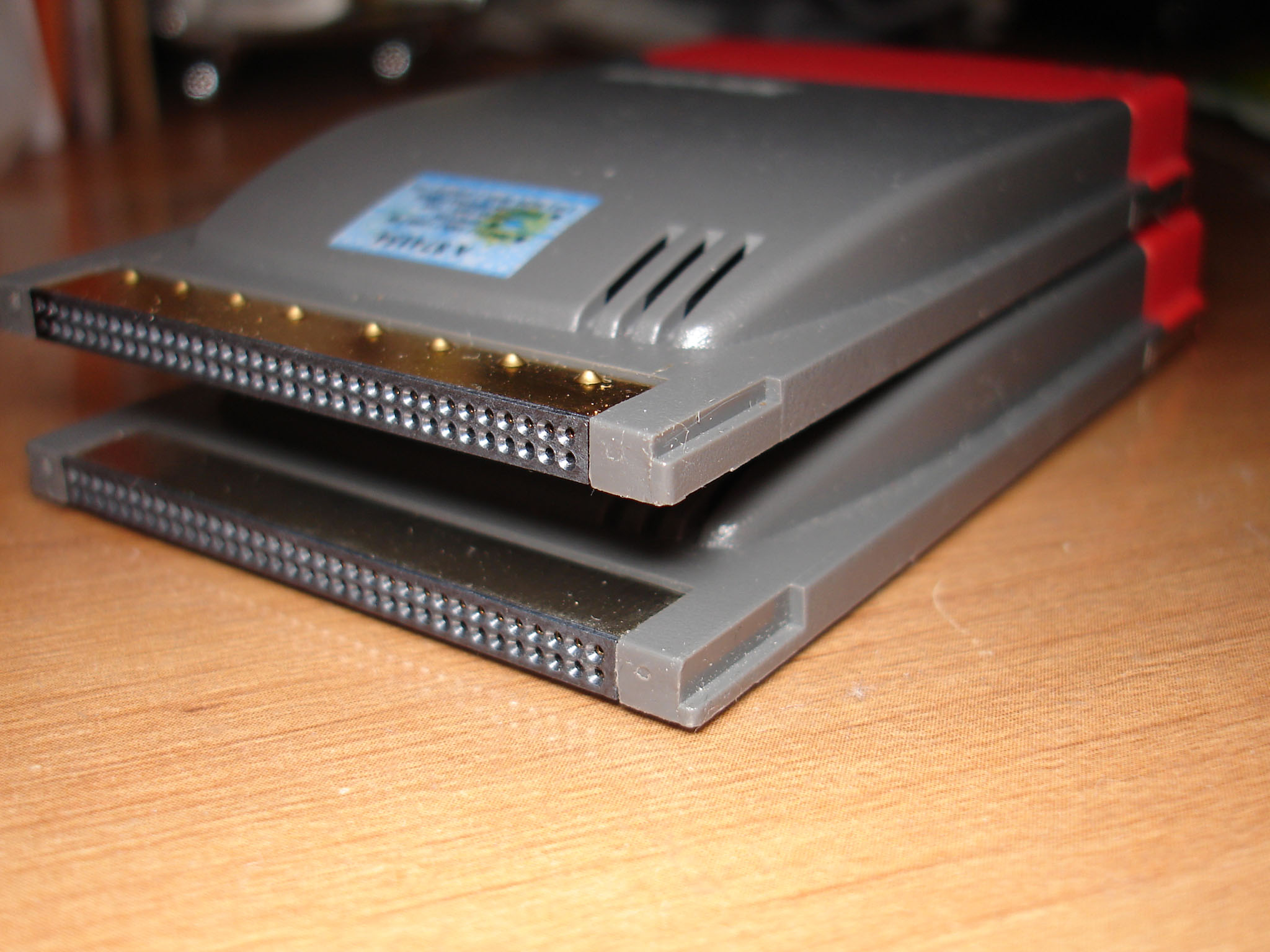 Two Xircom RealPort Ethernet/56k modem cards. Top one is CardBus, and the bottom is the 5 volt PCMCIA version.